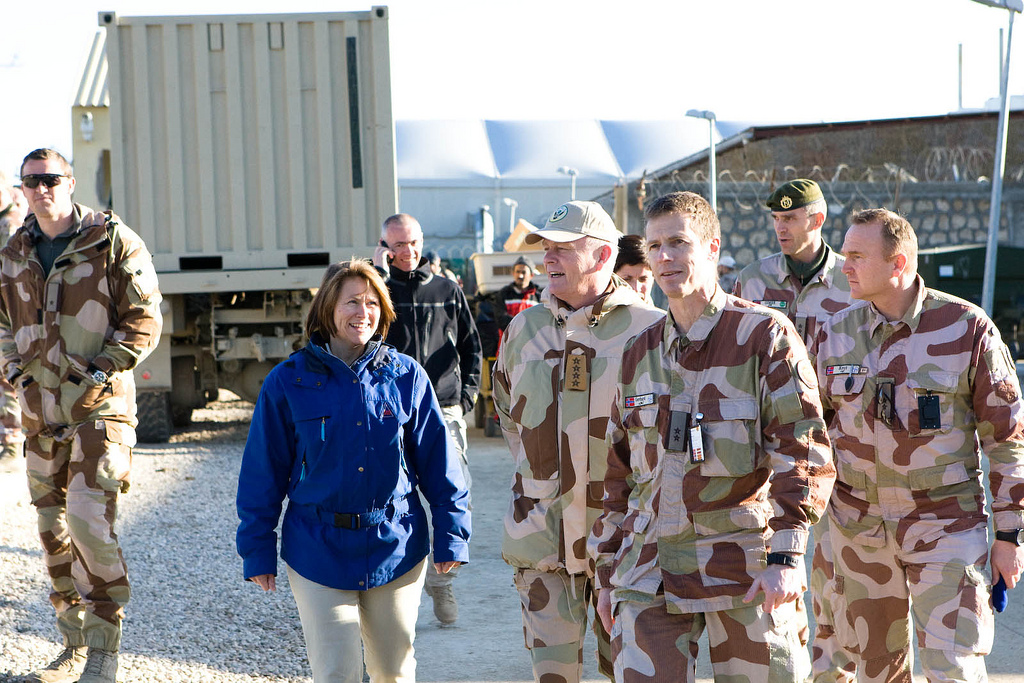 Chief of Staff of the PRT 14 Gerhard Larsen shows up camp Maymana for Defense Minister Grete Faremo and chief of Defense Harald Sunde